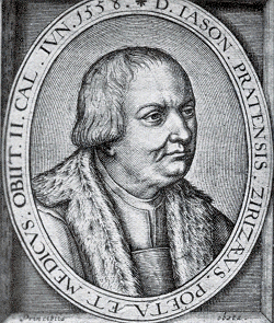 Engraving with a portrait of the Dutch physician and poet Jason Pratensis (also a Pratis, van Praet, Van de Velde, or Van der Meersche) (1486-1558)